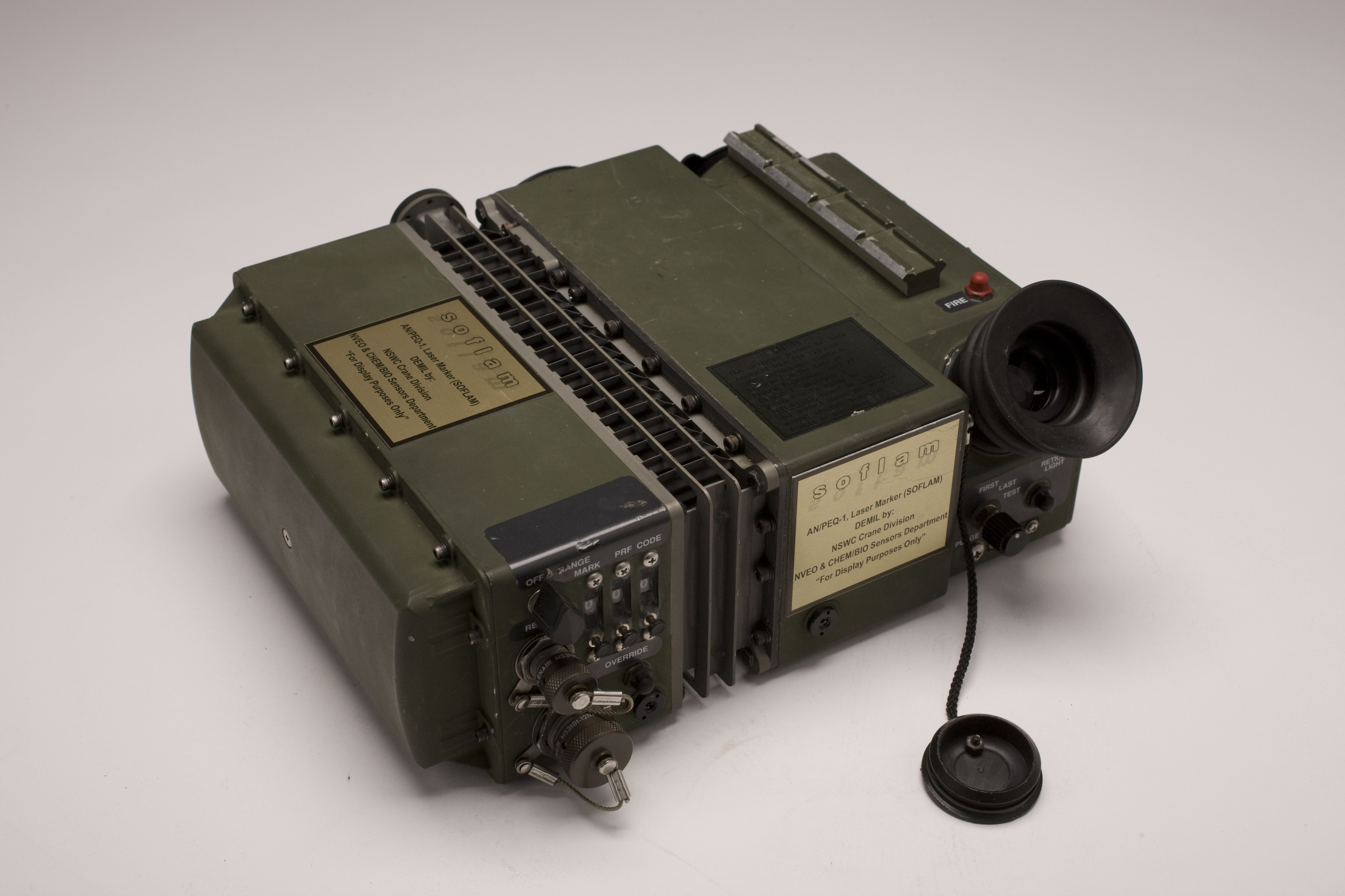 US Special Operations Forces in Afghanistan used the AN/PEQ-1A SOFLAM to direct exact delivery of ordnance. The SOFLAM was an important tool in the battle for Tora Bora where a CIA US Special Forces team directed 72 hours of unrelenting air strikes—sometimes dangerously close to their own position—killing hundreds of al Qa’ida terrorists. For more information on CIA history and this artifact please visit